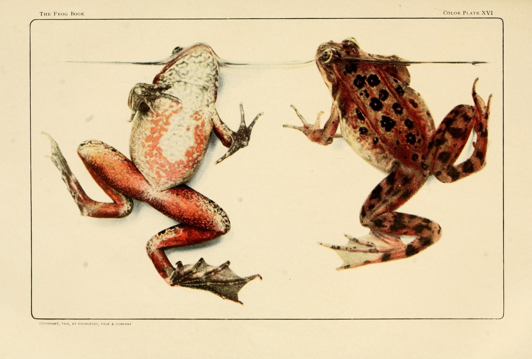 THE WESTERN FROG [Rana pretiosa Bd. and Gird. Female. Seattle, Washington.] Photographed (in water) to show the coloring of the upper and under surfaces.